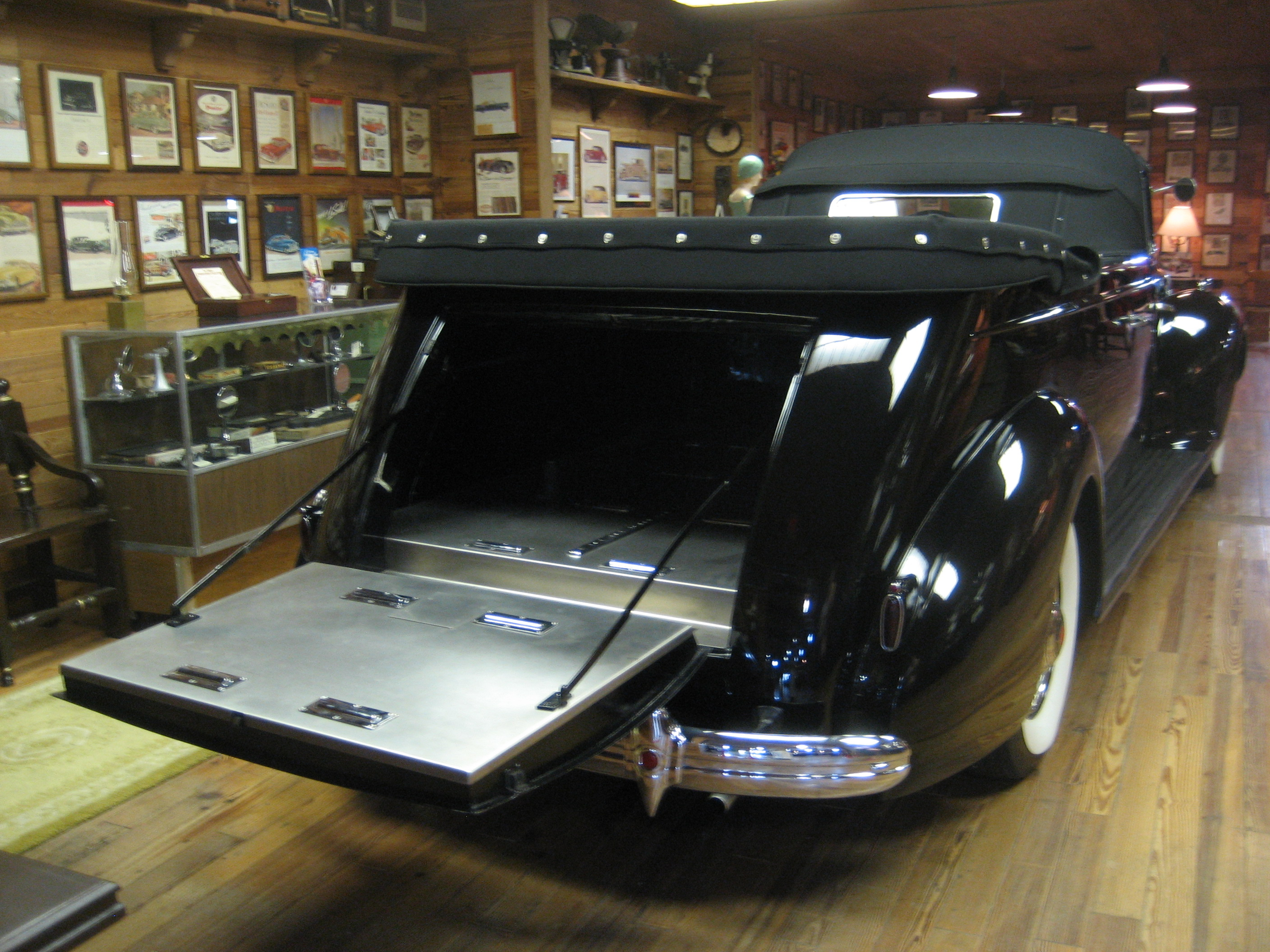 1938 Packard Eight 886 Henney "Flower Car" (Hearse) On display at Fort Lauderdale Antique Car Museum.